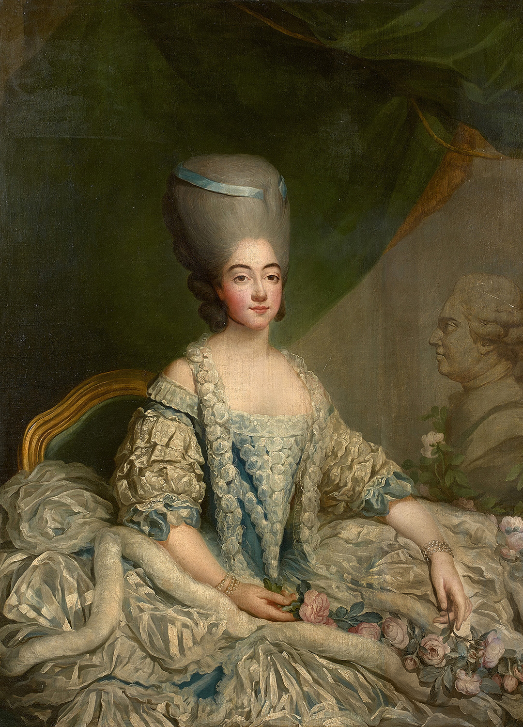 Portrait of the Countess of Provence Marie-Joséphine de Savoie in front of a sculpture figuring the bust of Louis XVIII